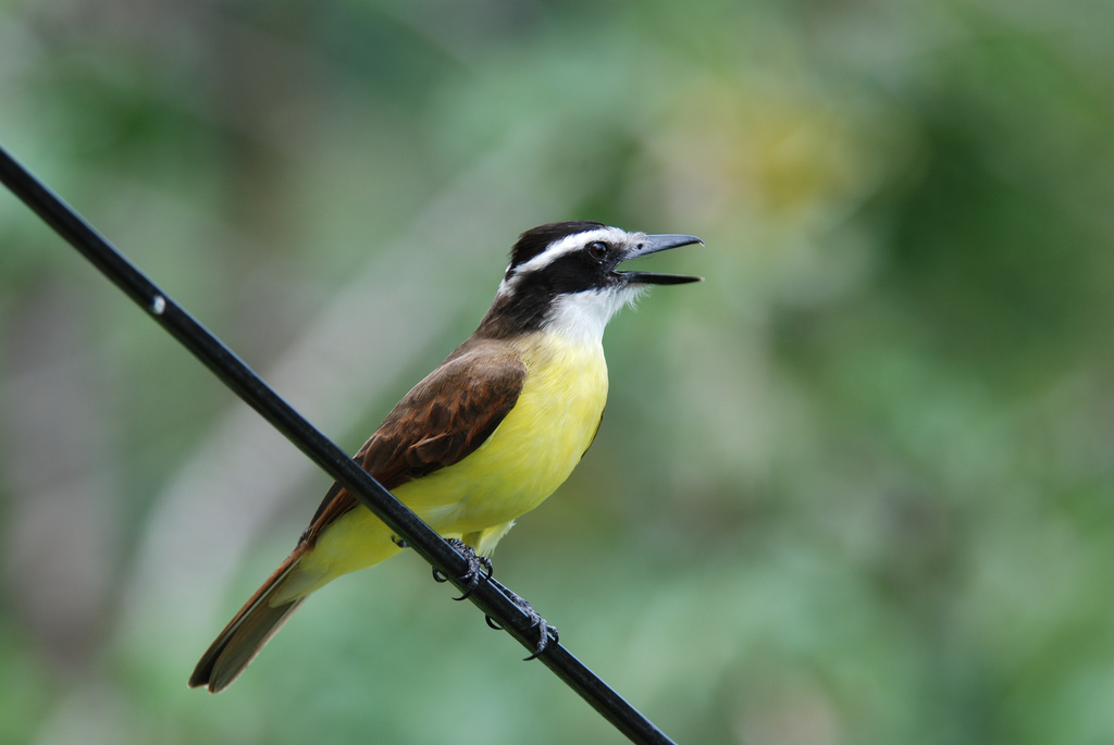 Great Kiskadee (Pitangus sulphuratus) seen outside our window at the Asa Wright Nature Center, Trinidad. Named for its ringing kis-ka-dee calls, this bird is found from Texas to Argentina.